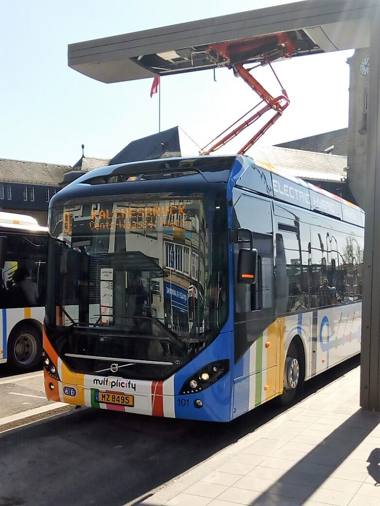 Hybrid bus at Luxembourg main train station being loaded